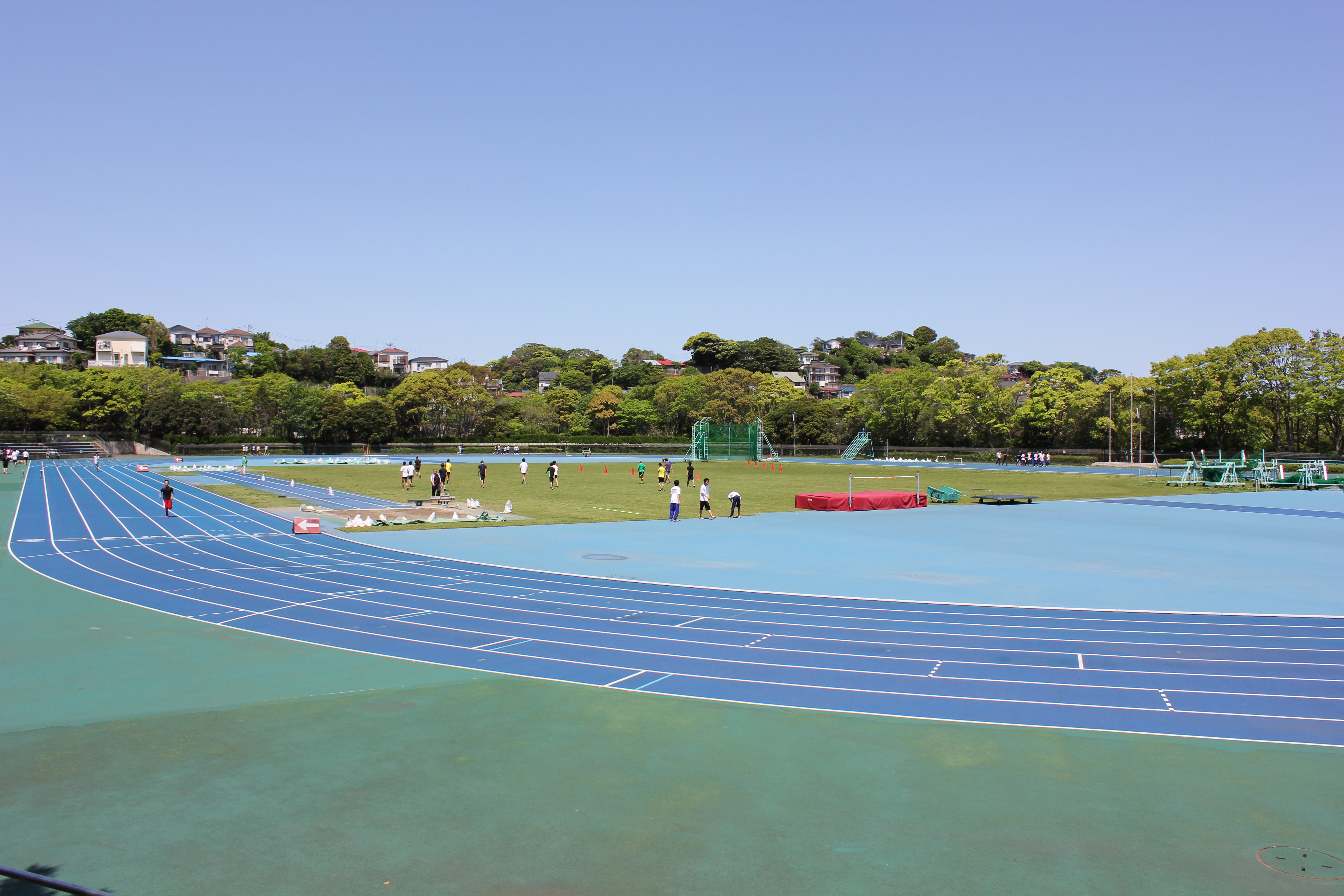 Iriyamazu Park Athletic Field